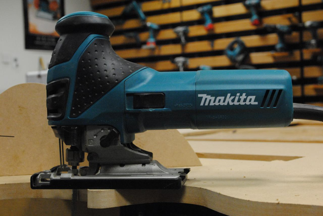 for more info on our recent fact-finding trip to Makita's UK HQ.